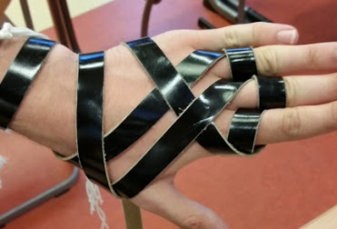 Personalized Tefillin wrap of the Rodrigues-Pereira family